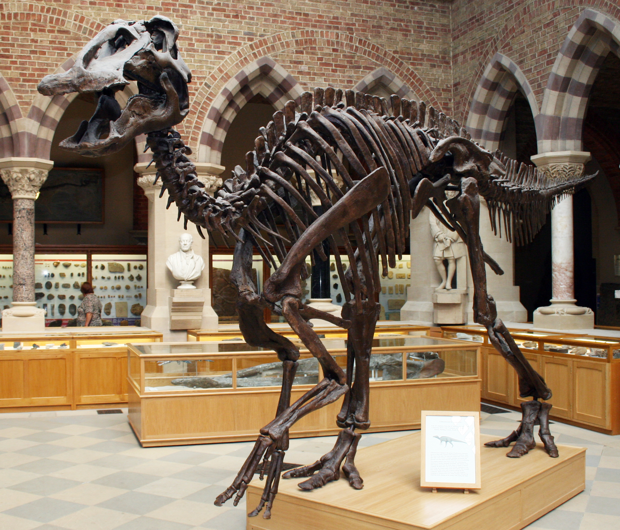 Mounted replica of a composite skeleton of Edmontosaurus annectens on display at the University of Oxford Museum, Oxford, England. The original skeleton is compiled from disarticulated fossil bones from a bonebed of the Hell Creek Formation, exposed in the Ruth Mason Quarry in Harding County, South Dakota. It is 8.5 m (28 ft.) long and the skull is almost 1 m (39 in.) in length.[1][2] ↑ Dinosaurs in the Museum. Oxford University Museum of Natural History (brochure, PDF), p. 7 ↑ BHI Fossil Replica Catalog 2012. Black Hills Institute of Geological Research, Inc., Hill City, SD, 2012 (PDF), p. 22